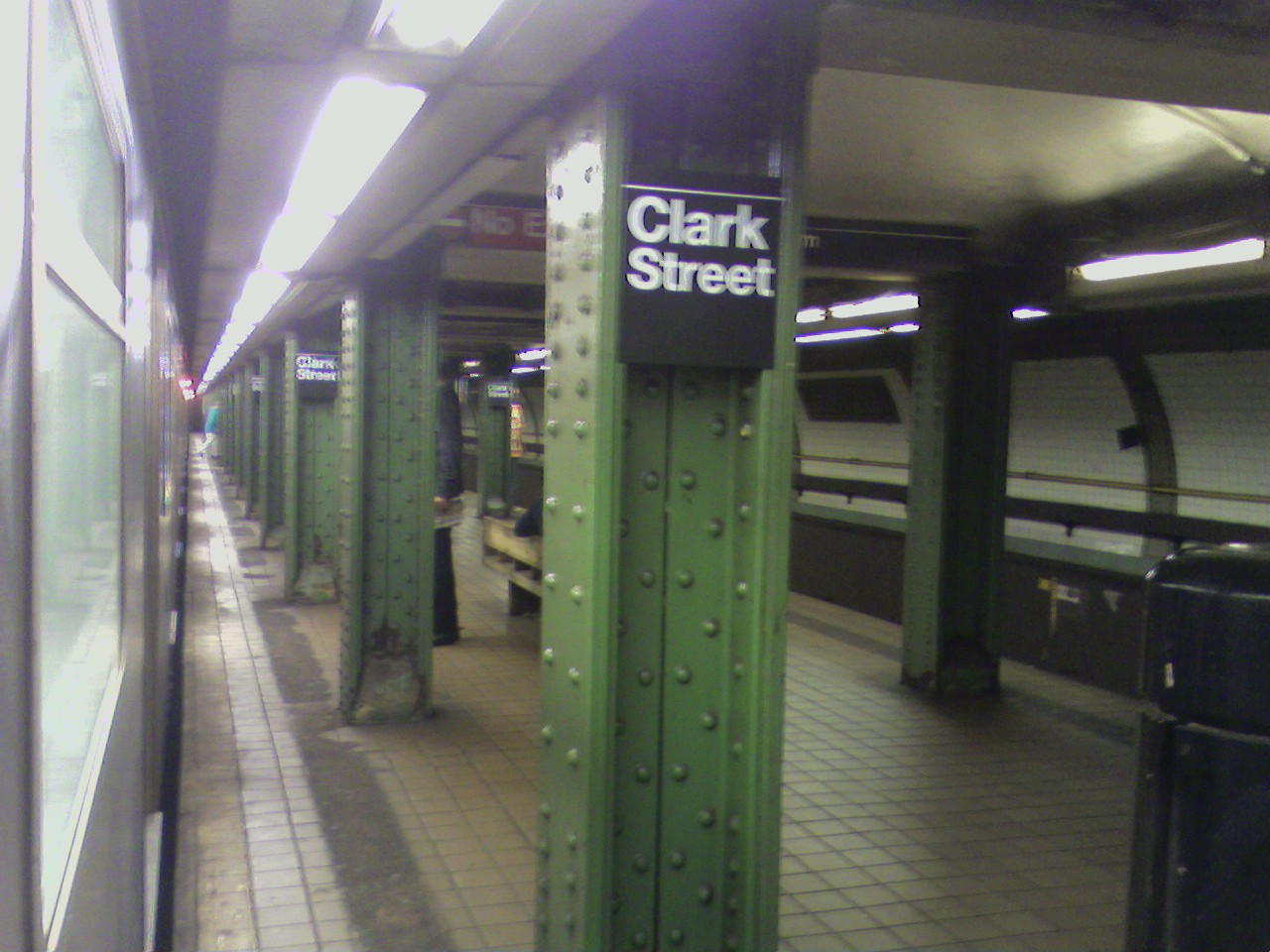 The Clark Street-Brooklyn Heights subway staiton.